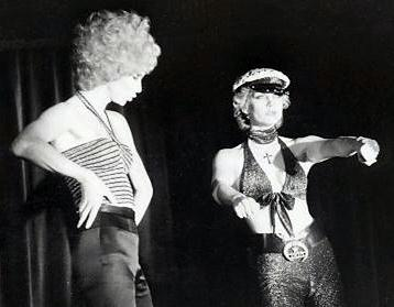 Christer Lindarw and Ulla Andersson Jones as "Obvióla" and "Betty-Sue" in Wild Side Story, as released by image creator Lars Jacob ProdPlace: Alexandra's, Biblioteksgatan 5, Stockholm, Sweden